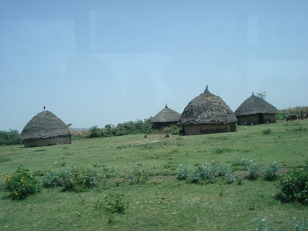 Traditional huts near Wondo Genet, Ethiopia.